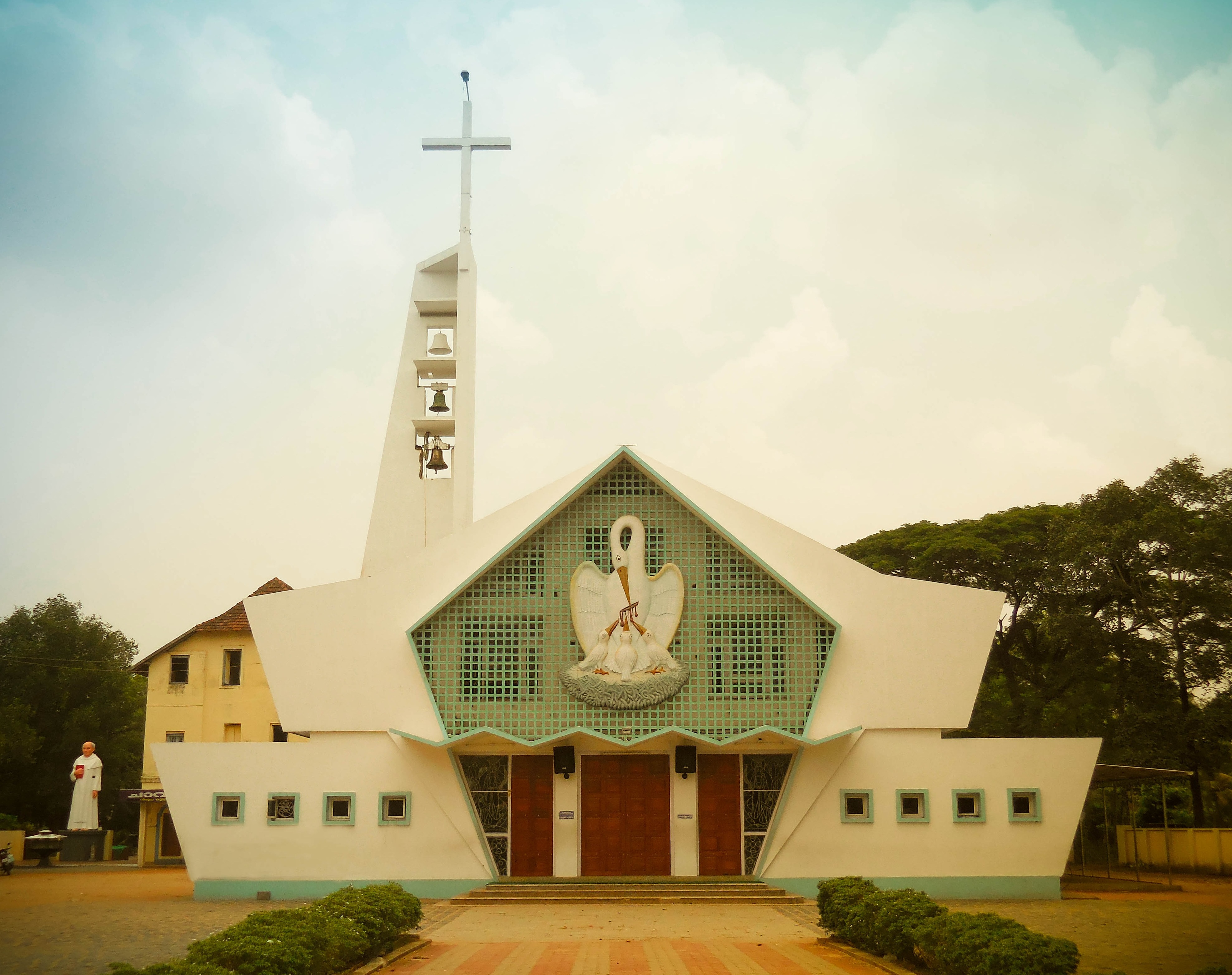 St.Philomenas Forane Church Koonammavu